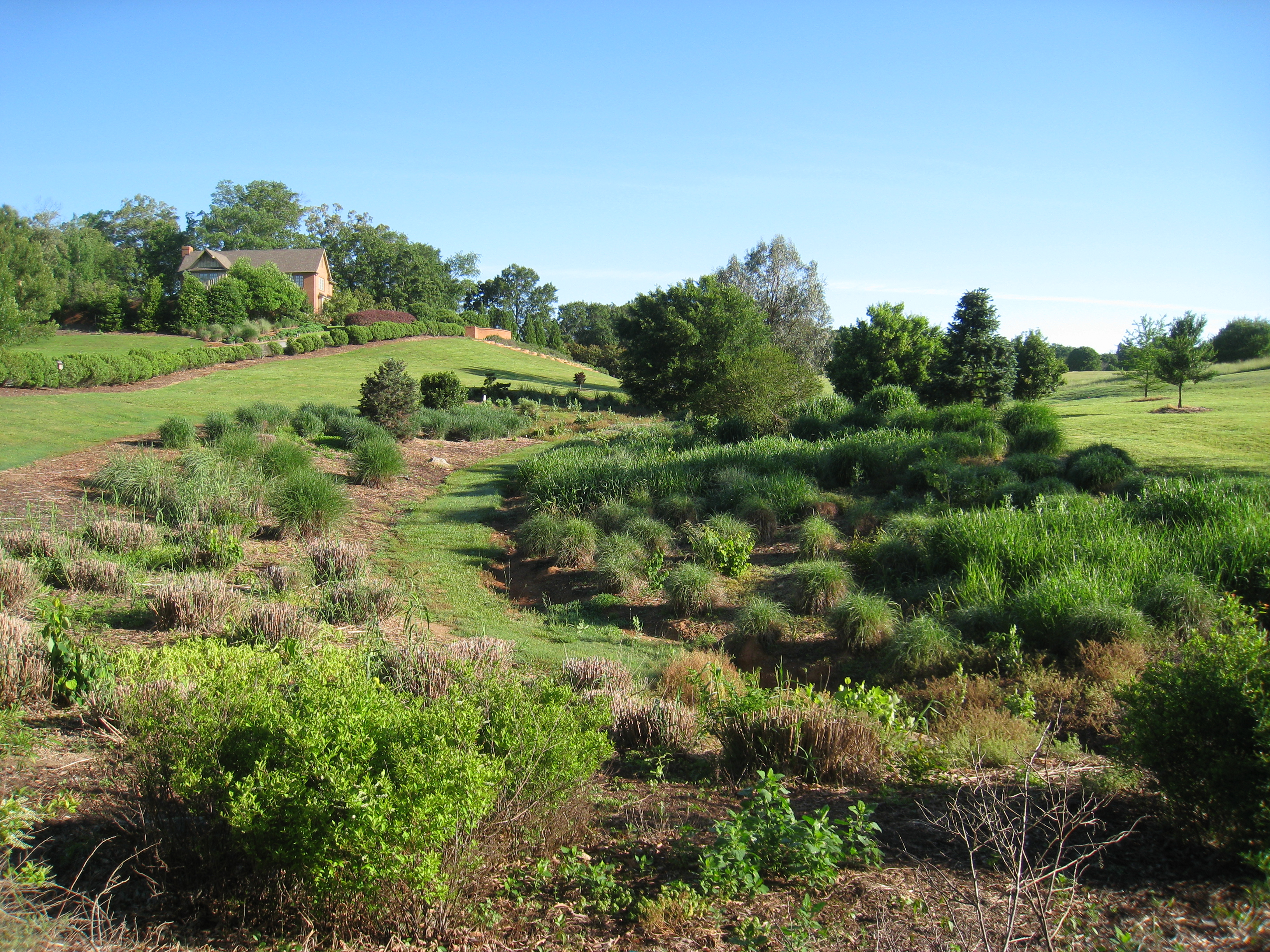 South Carolina Botanical Garden, Clemson, South Carolina, USA. General view.